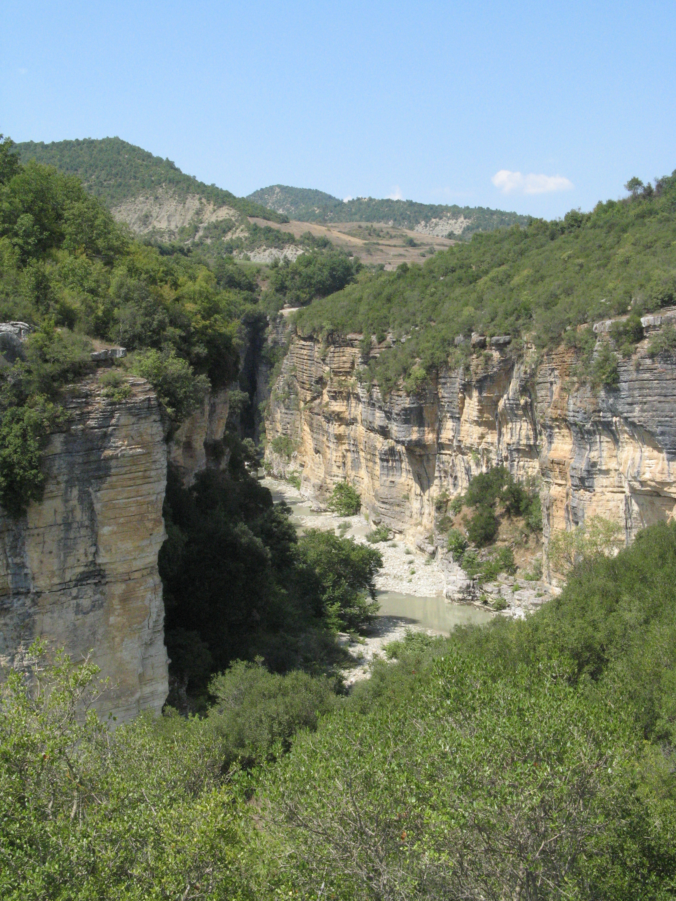 Osumit Canyon, Skrapar, Albania